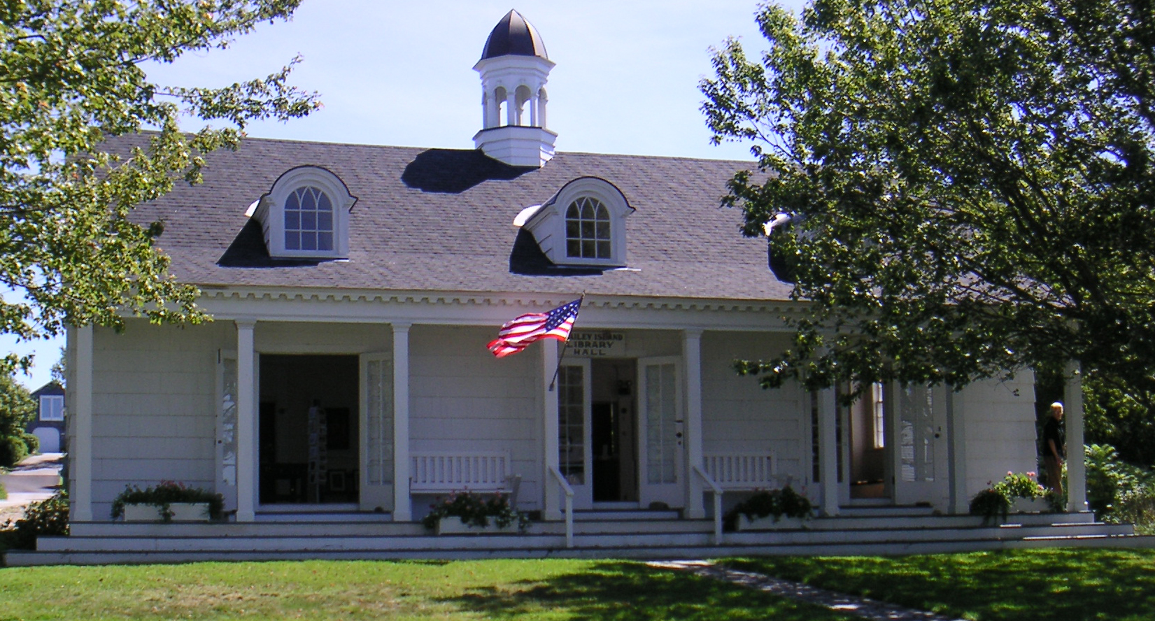 Bailey Island Library Hall (BILH), also known simply as Library Hall, on Bailey Island, Maine.